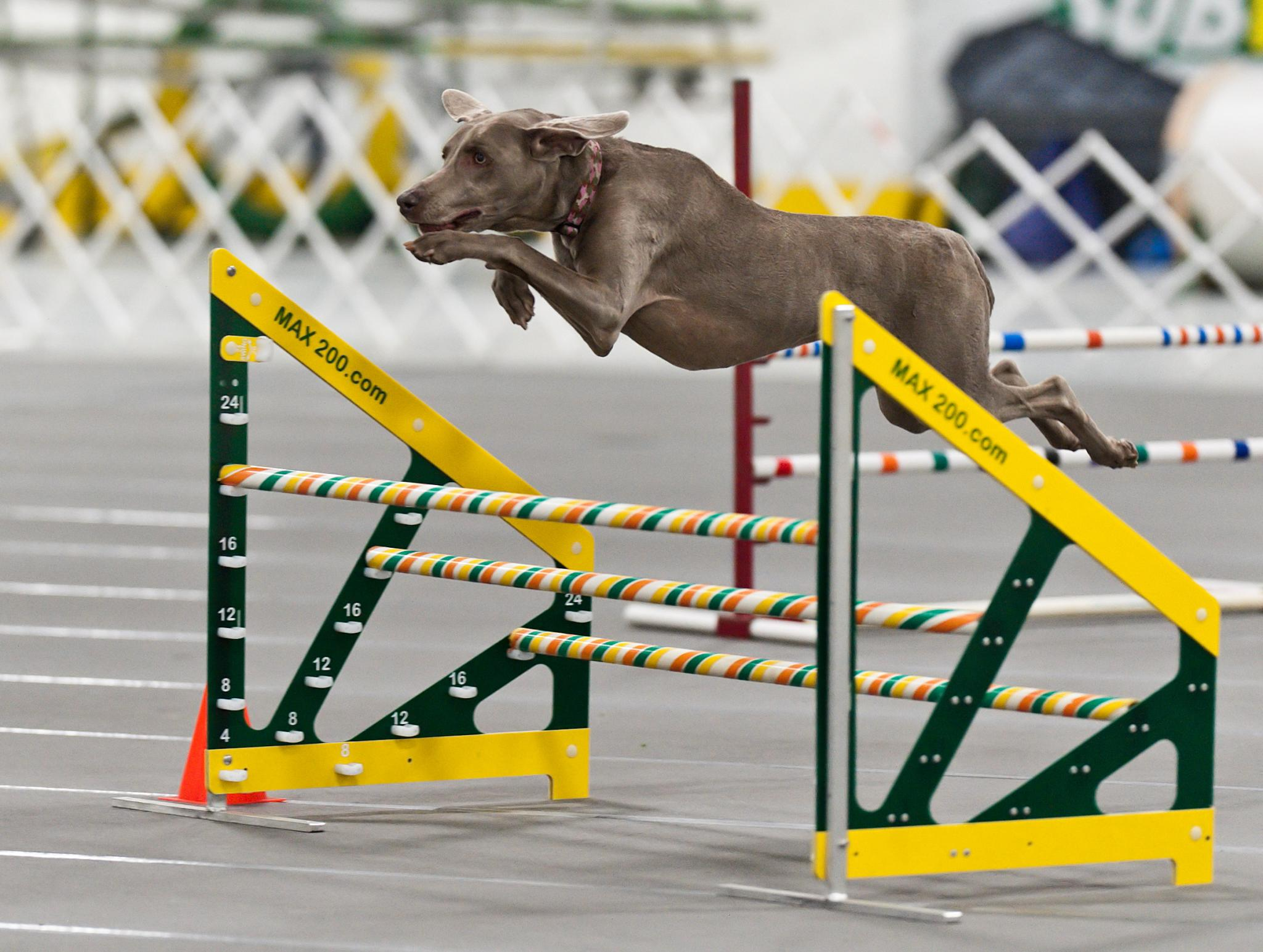 A Weimaraner jumping over an ascending spread jump during an agility trial